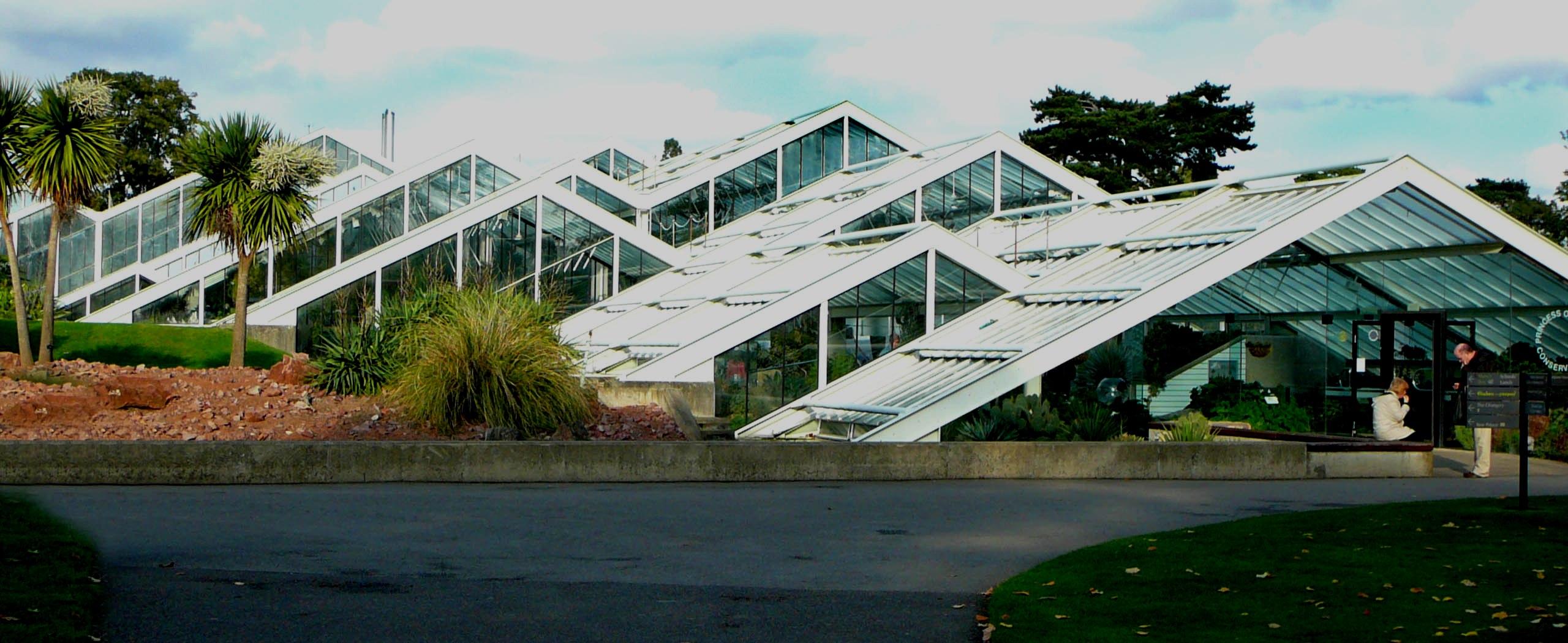 Princess of Wales Conservatory - Kew Gardens - London